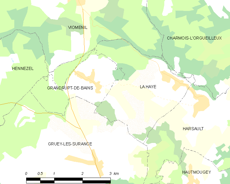 Map of French municipality La Haye